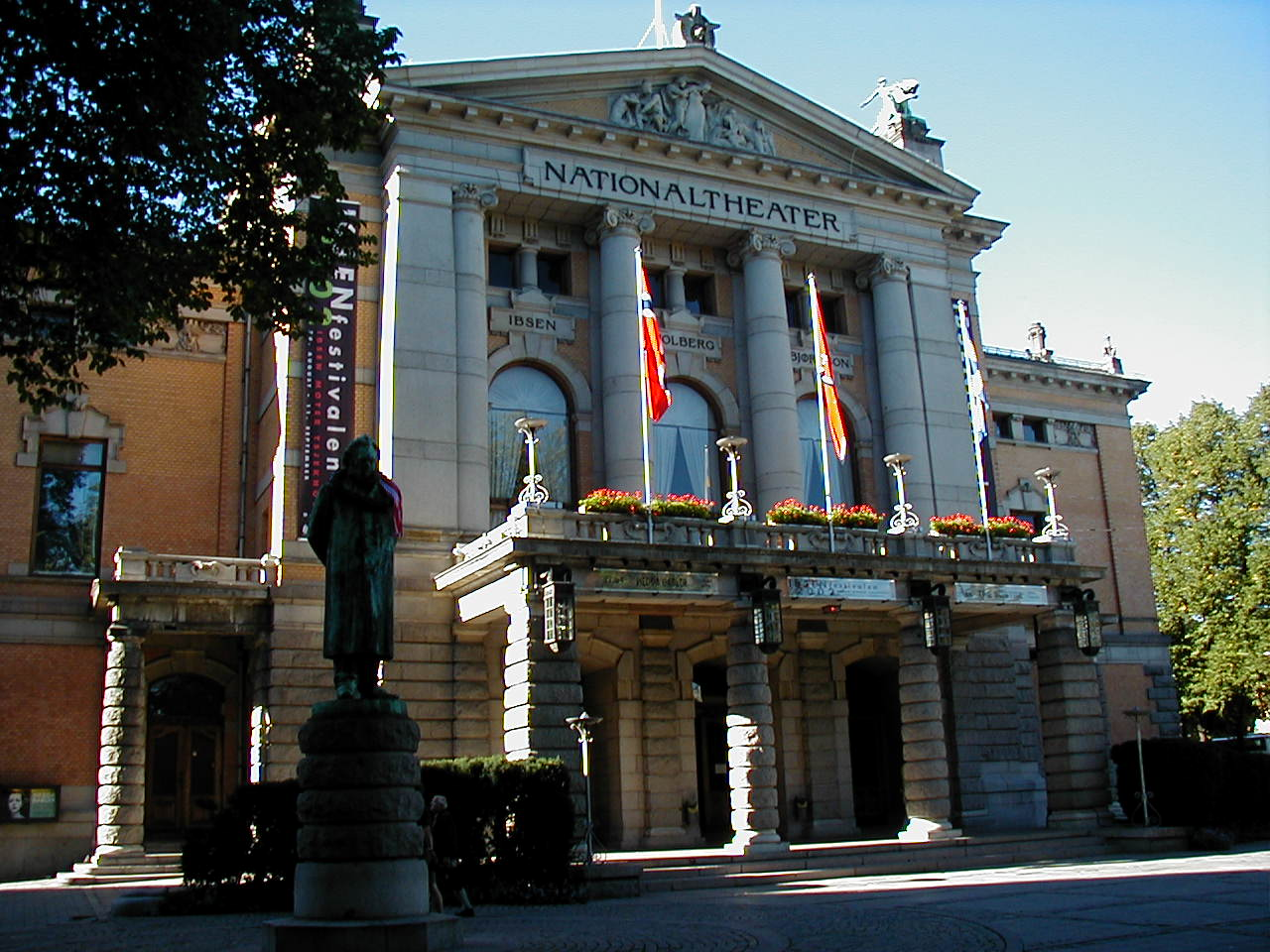 Outside the Nationaltheater in downtown Oslo.